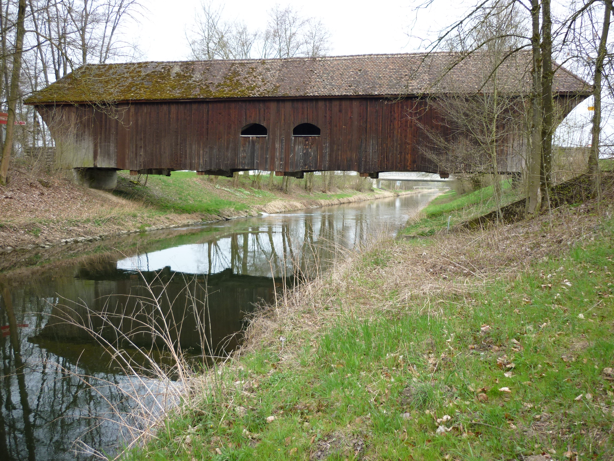 Grubenmann Bridge, River Glatt, Canton of Zurich, Switzerland